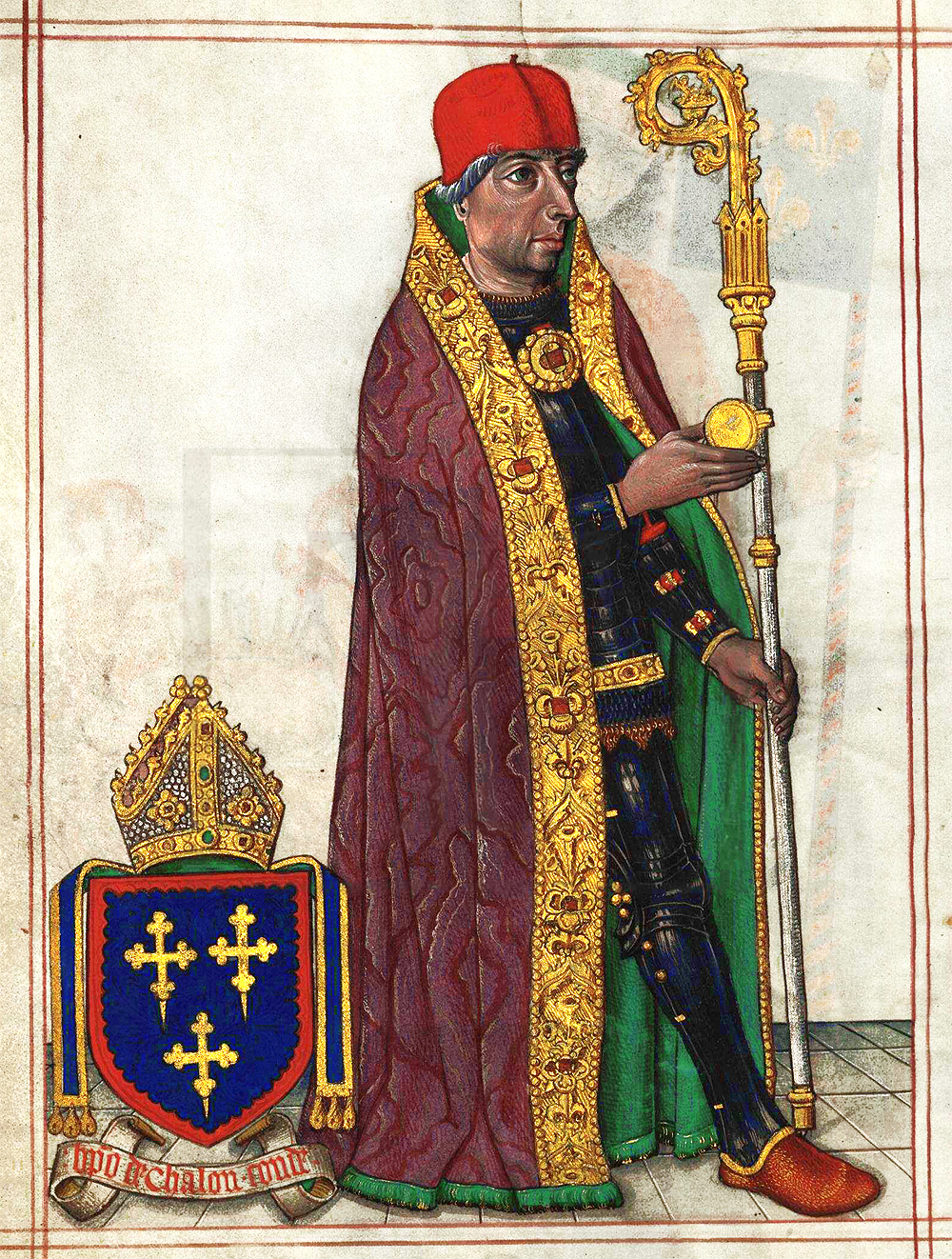 Bishop-Count of Châlons